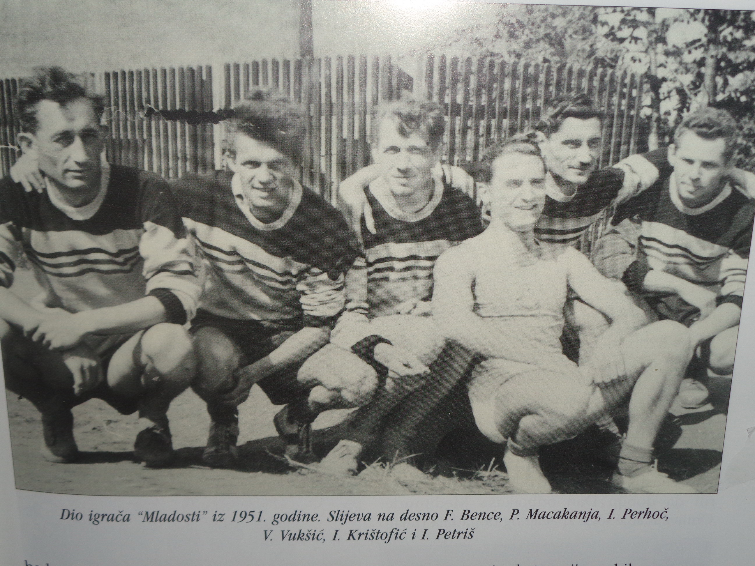 OK "Mladost" volleyball team from 1951, Čakovec, Croatia